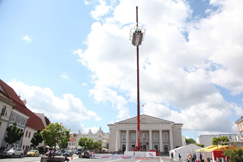 Dinner in the Sky 2012 Vilnius, Lithuania